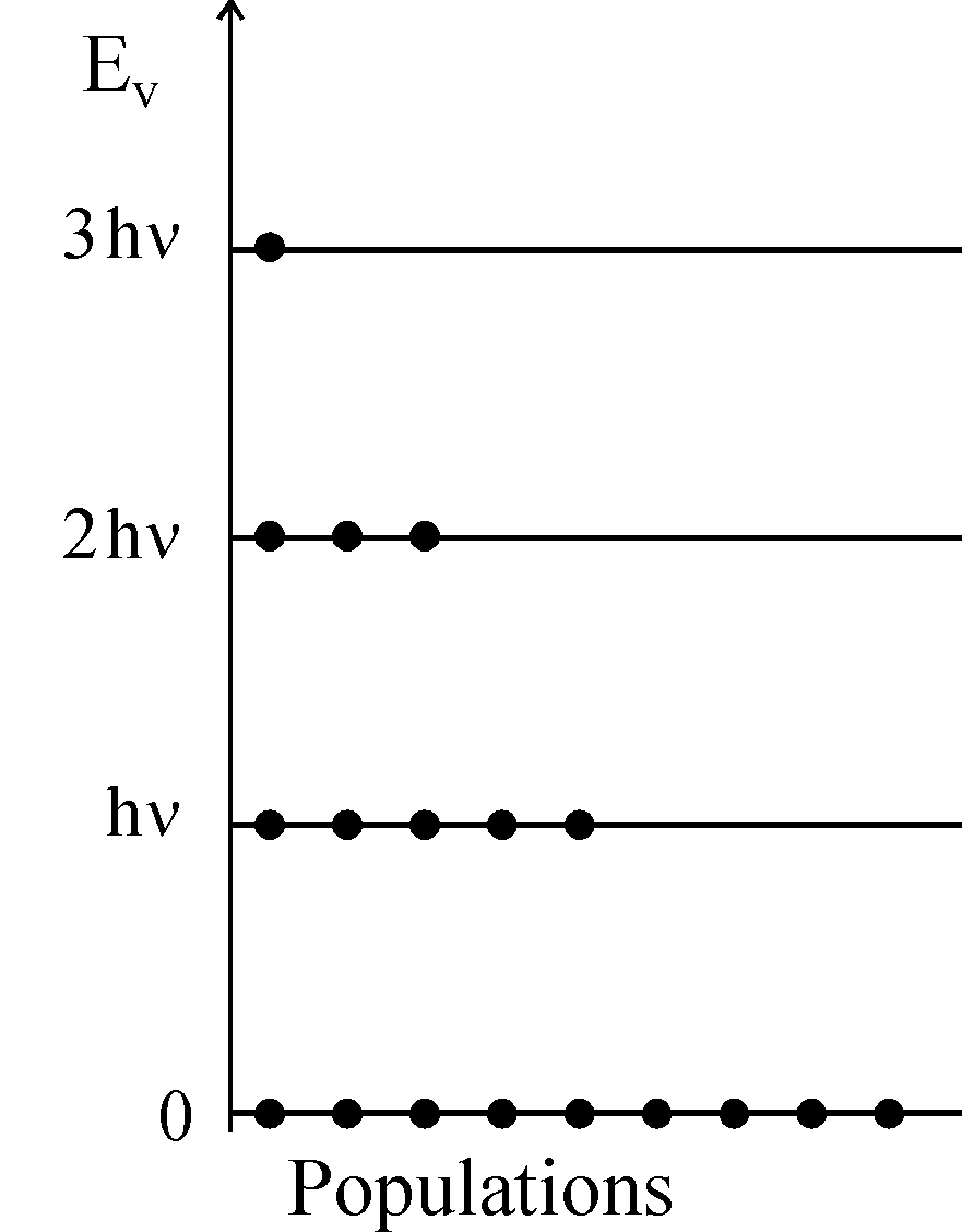 Energy levels of a harmonic oscillator in quantum mechanics